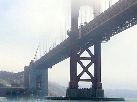 I took this pic while travelling under this gigantic bridge